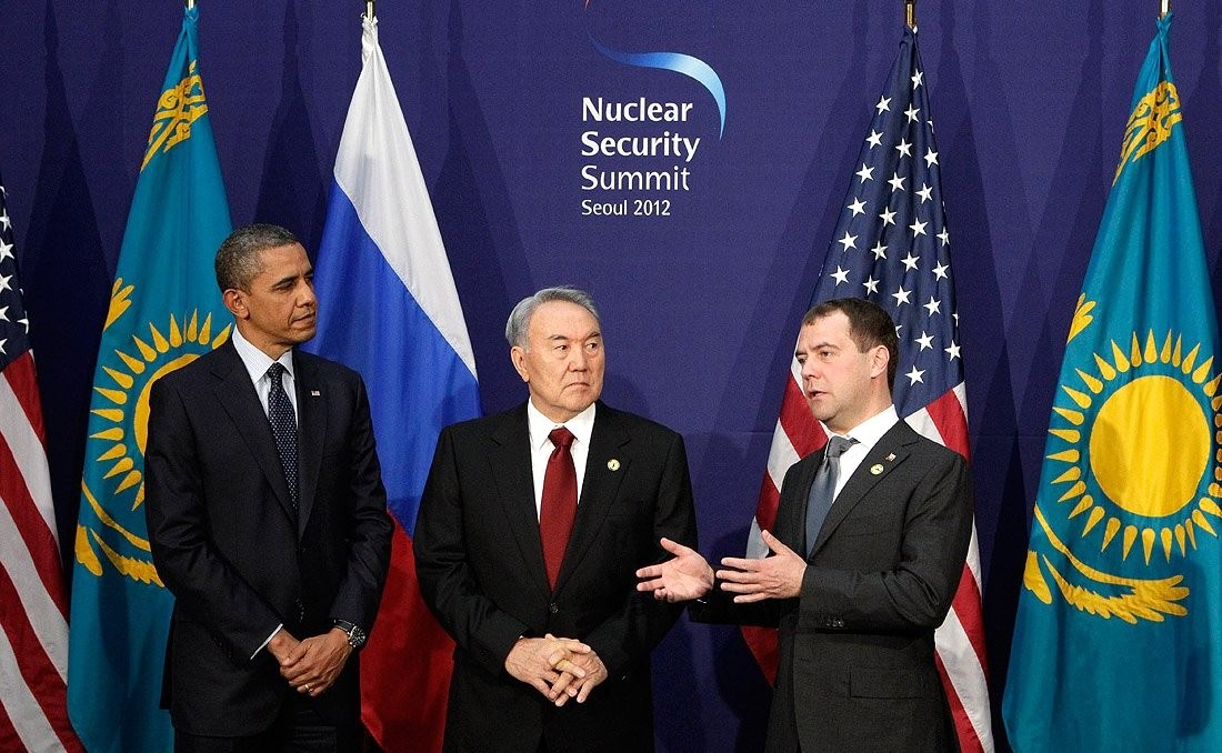 U.S. President Barack Obama, Russian Prime Minister Dmitry Medvedev, and Kazakh President Nursultan Nazarbayev